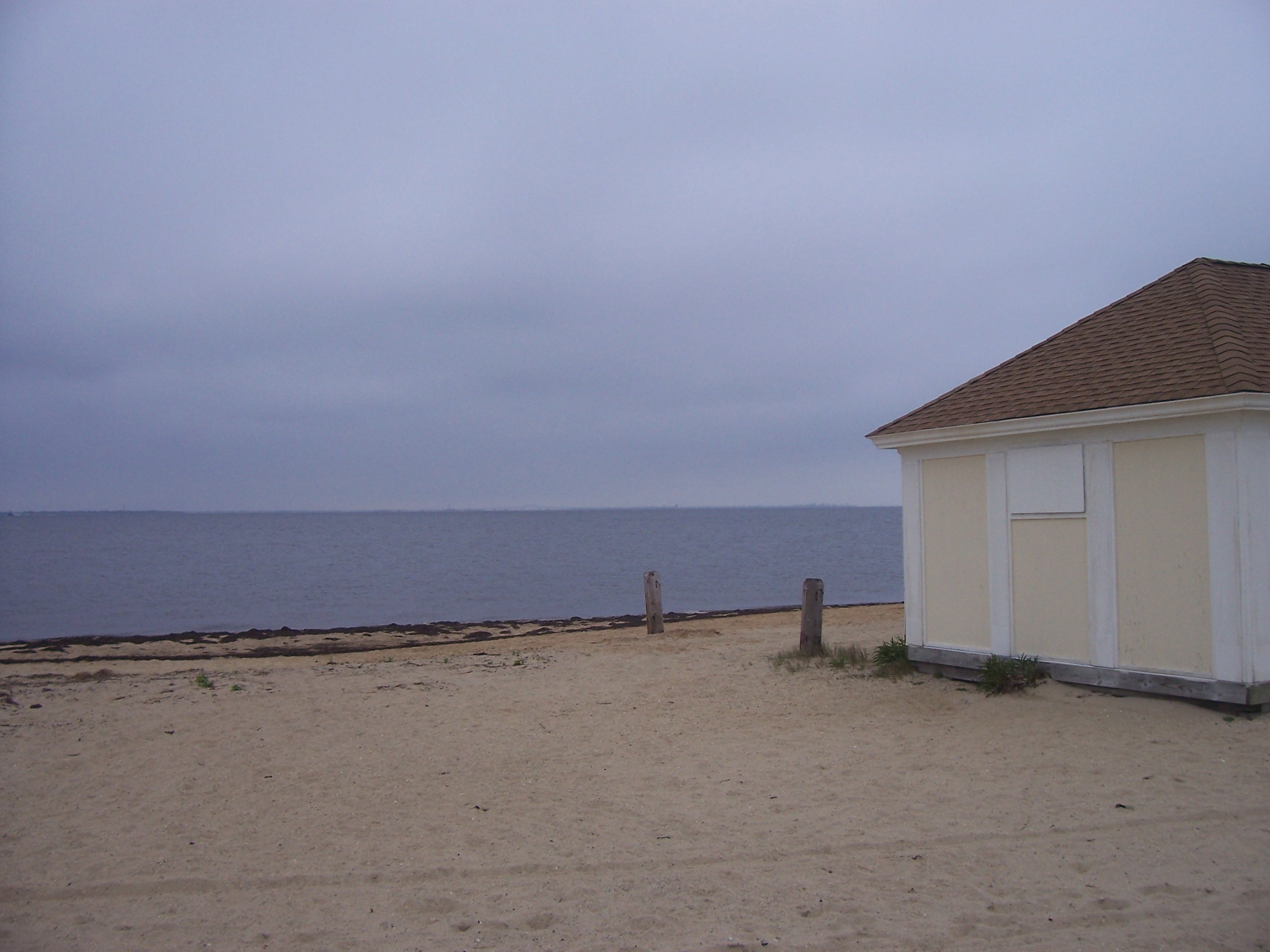 Beach and house in Heckscher State Park